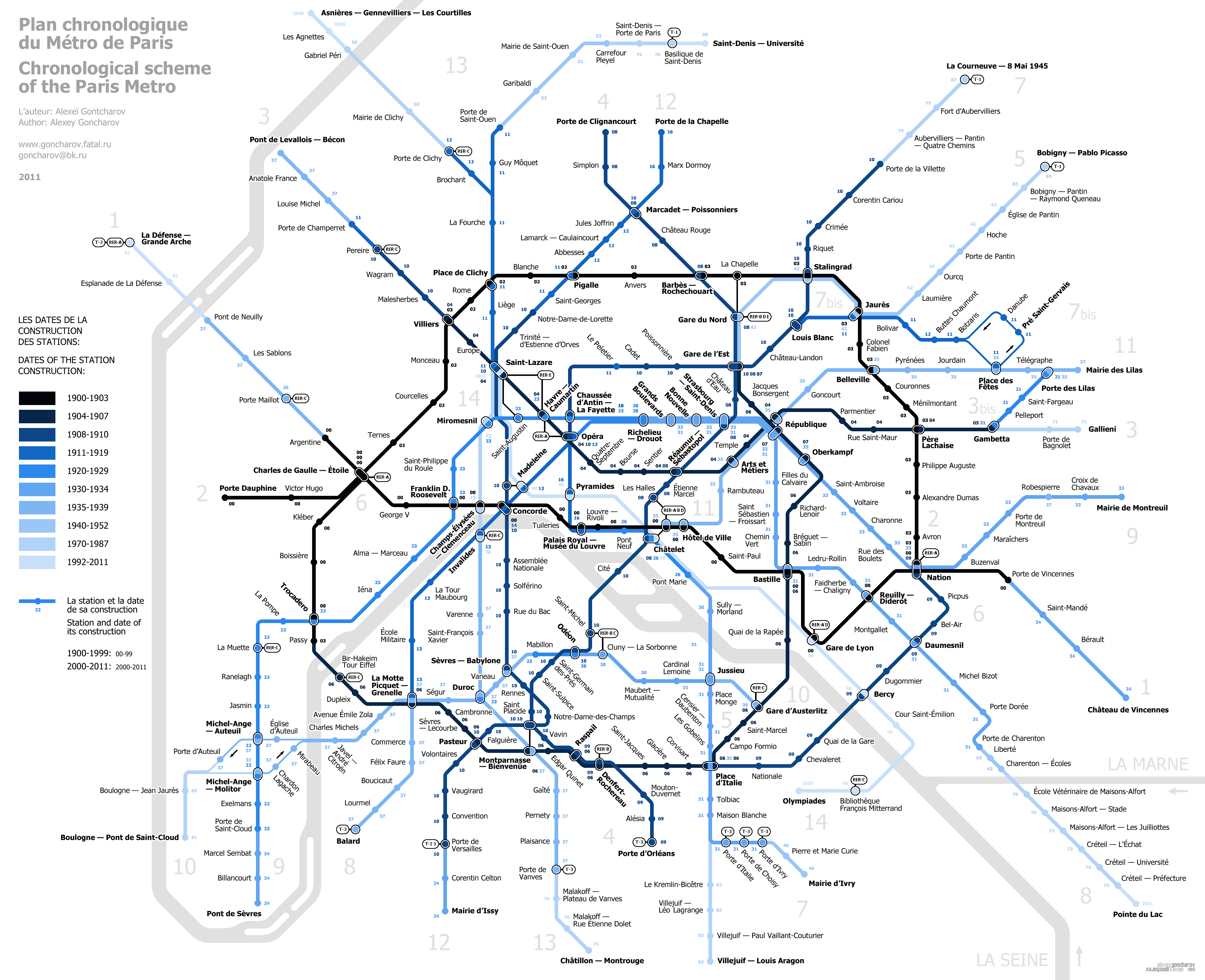 Chronological scheme of the Paris Metro